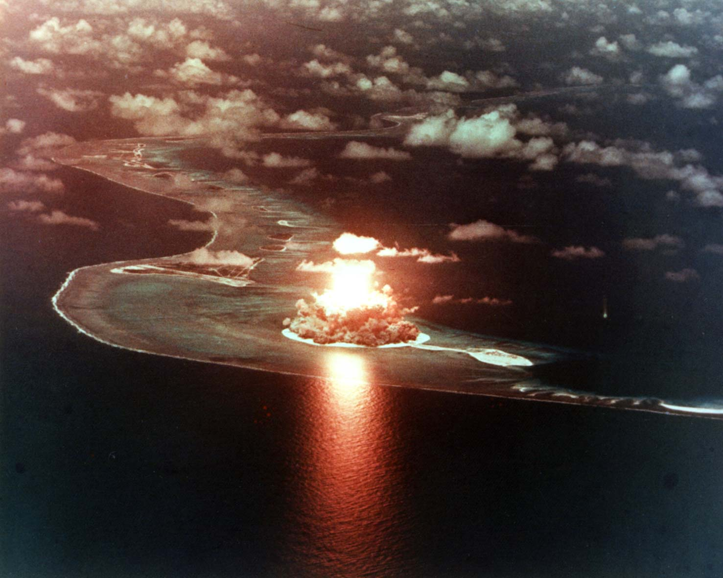 Nuclear weapon test Seminole (yield 13.7 kt) on Enewetak Atoll.